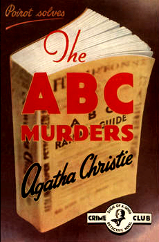 Agatha Christie The A.B.C. Murders first edition cover 1936. According to John Cooper & B. A. Pike's Artists in crime: an illustrated survey of crime fiction first edition dustwrappers, 1920-1970, Scolar Press, 1995, p. 119, the artist is unknown.